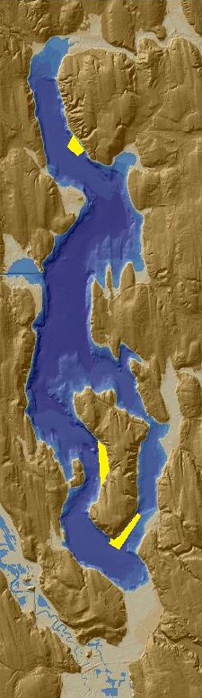 Sunken forests in Lake Washington, King County, Washington (state), USA. From 1904 map reproduced by David B. Williams at his blog on 1994-08-19; and from Robert S. Yeats, Living with Earthquakes in the Pacific Northwest, 2004 second ed. (p. 110)